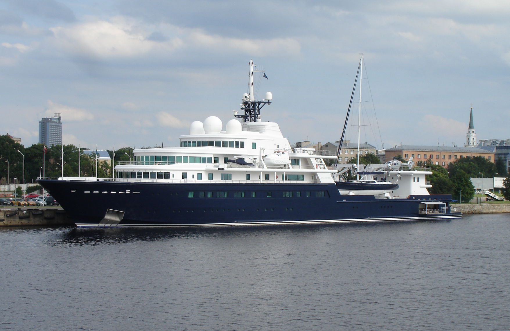 Le Grand Bleu in 2010